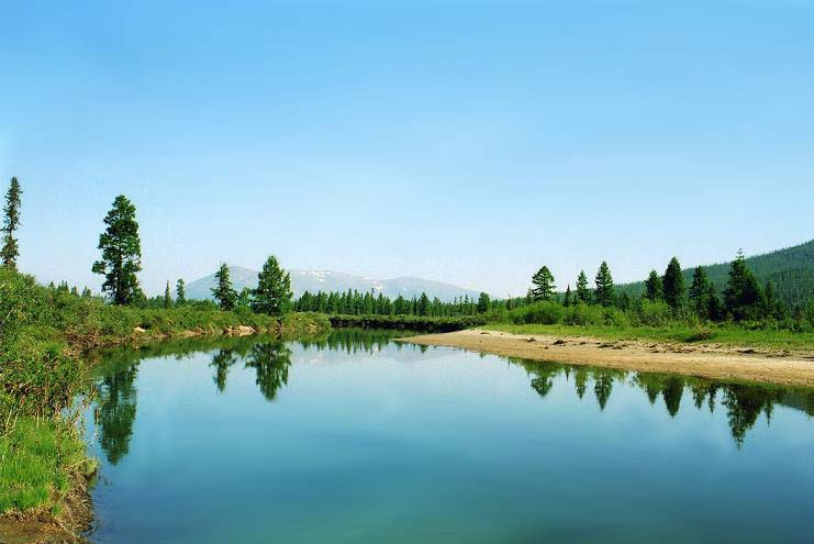 Chaya River near Lena River